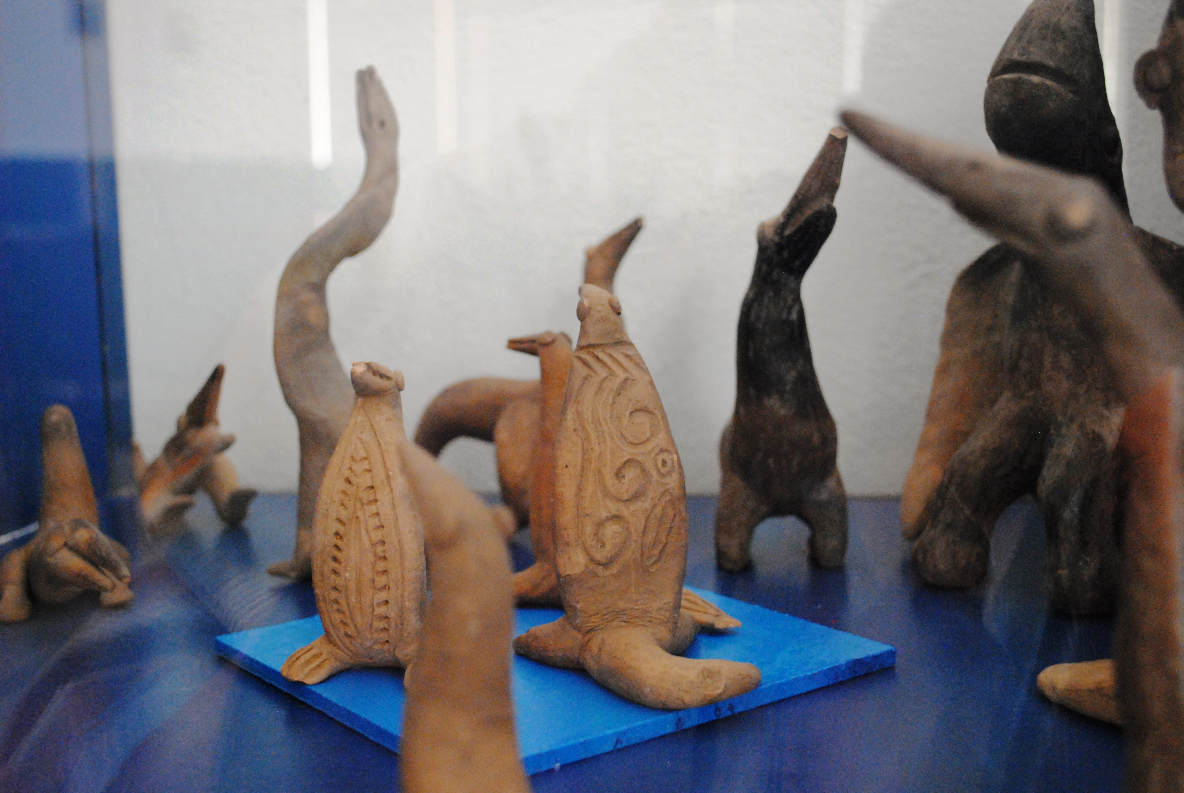 Muzeo Julsrud